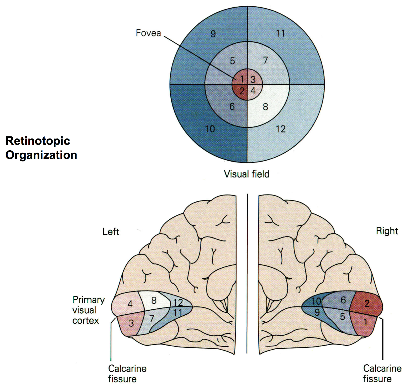 Visual cortex